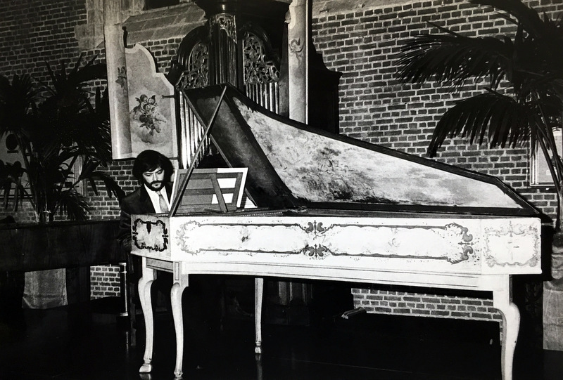 Jos van Immerseel playing the Dulcken harpsichord (Vleeshuis Museum, c.1974)